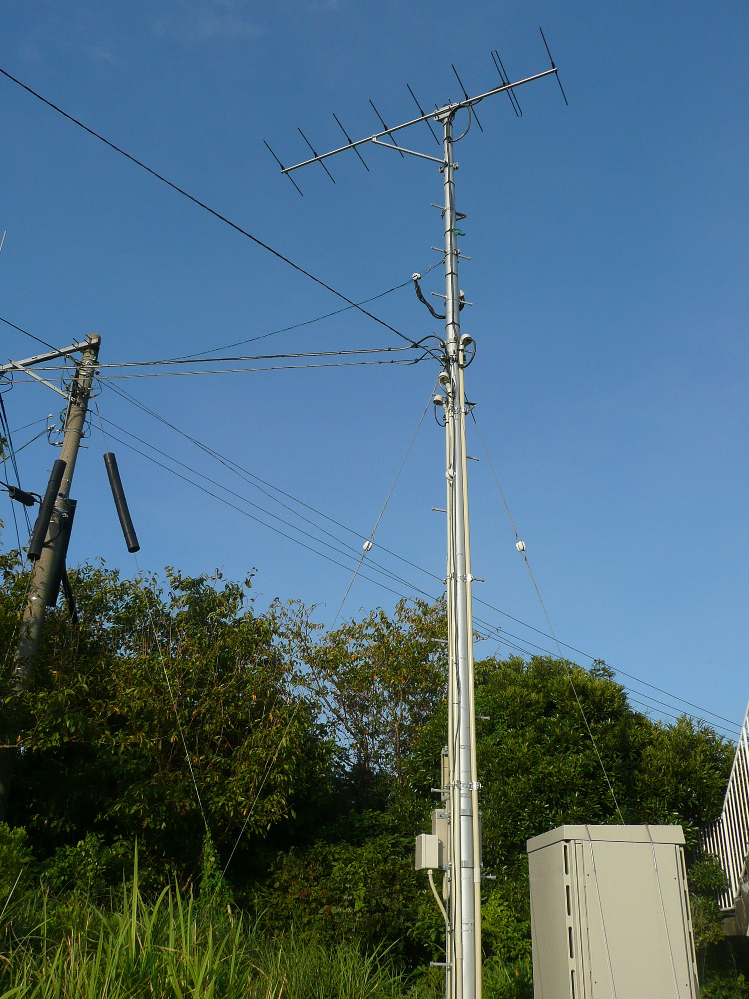 FM Kanoya Transmitting Station (JOZZ0AY-FM,77.2MHz,20W - Kanoya City, Kagoshima, Japan)